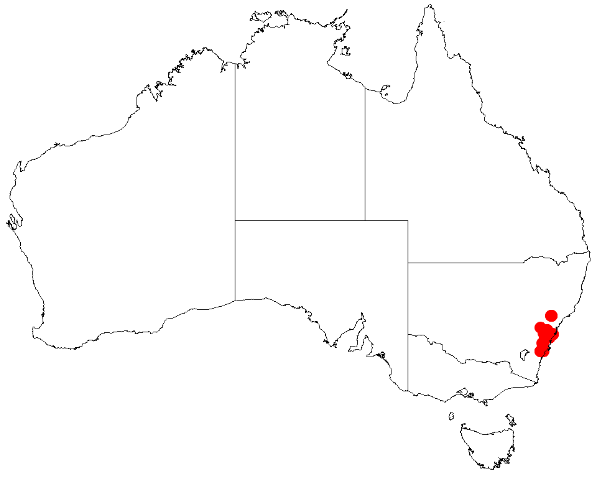 Bertya pomaderroides Occurrence data downloaded on 22 June 2019 from Australasian Virtual Herbarium using